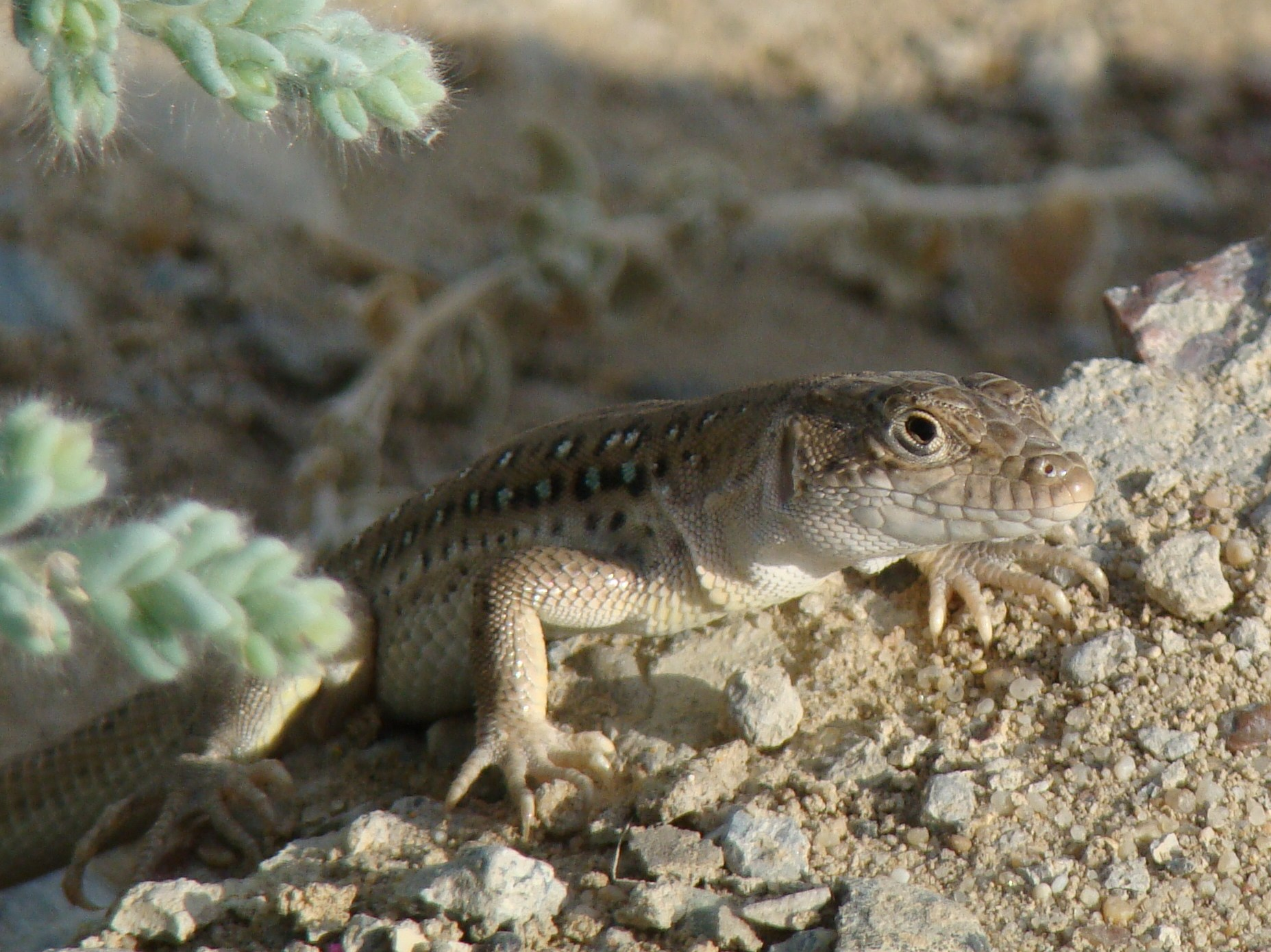 Rapid Racerunner (Eremias velox). Kazakhstan, Kyzylorda region, Baikonur.